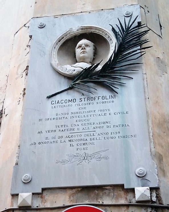 Effigy of the writer and philosopher Giacomo Stroffolini, at the entrance to the homonymous road in Casapulla